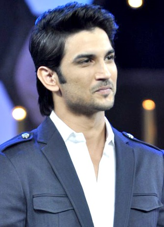 Sushant Singh Rajput promoting SHUDDH DESI ROMANCE on DID Super Moms.jpg